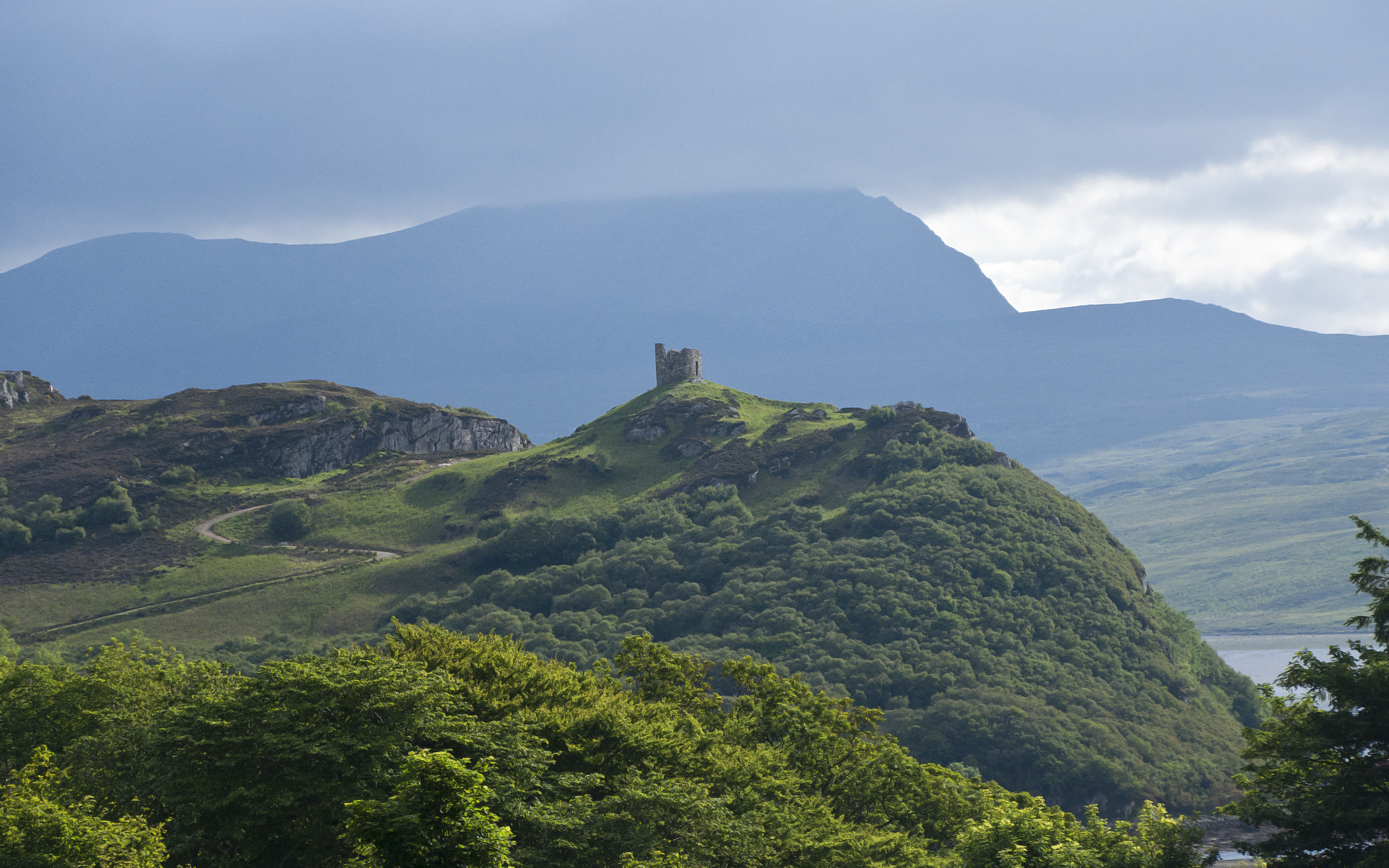 Castle Varrich and Ben Hope, Tongue, Sutherland, Scotland